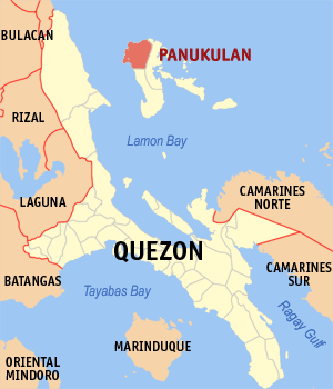 Map of Quezon showing the location of Panukulan